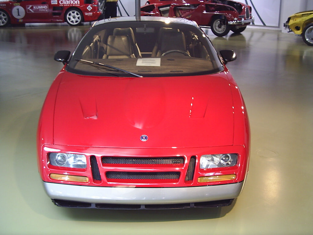 The concept car Saab EV-1 from 1985. sv: Bilen finns på Saabs bilmuseum i Trollhättan. Photographer:Tubaist. first upload: 19:55, Juni 15, 2005 - Wikipedia by the photographer